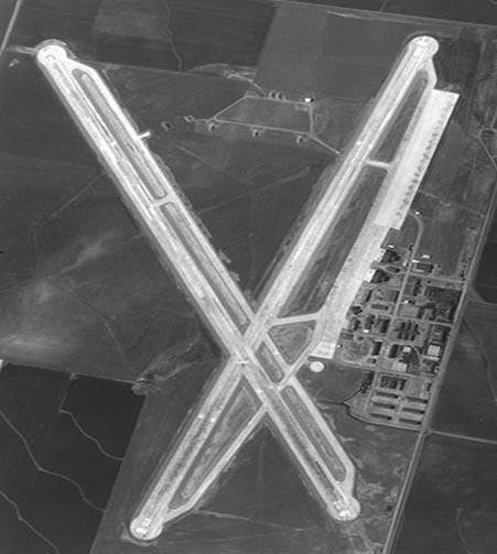 Aerial view of the U.S. Navy Naval Auxiliary Airfield (NAAF) Crows Landing, California (USA), on 5 August 1947. In late 1942, the U.S. Navy chose a site in the San Joaquin Valley. NAAF Crows Landing was an auxiliary airfield to NAS Alameda, some 100 km away. It was decommissioned on 6 July 1946 and turned over to the NASA in 1993.